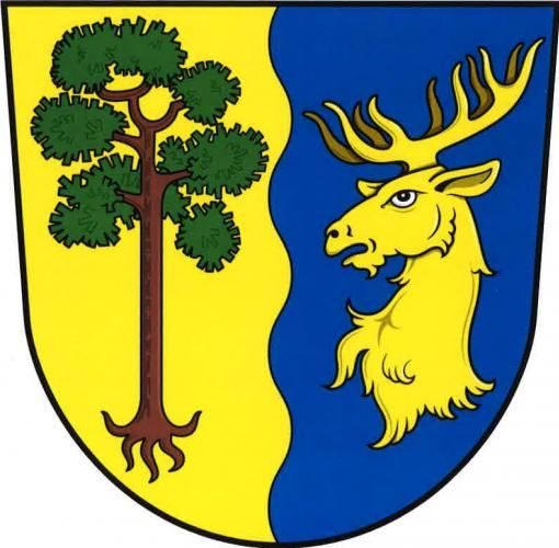 znak obce Rasošky